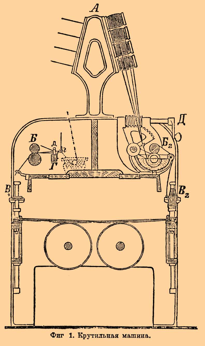 Illustration from Brockhaus and Efron Encyclopedic Dictionary (1890—1907)